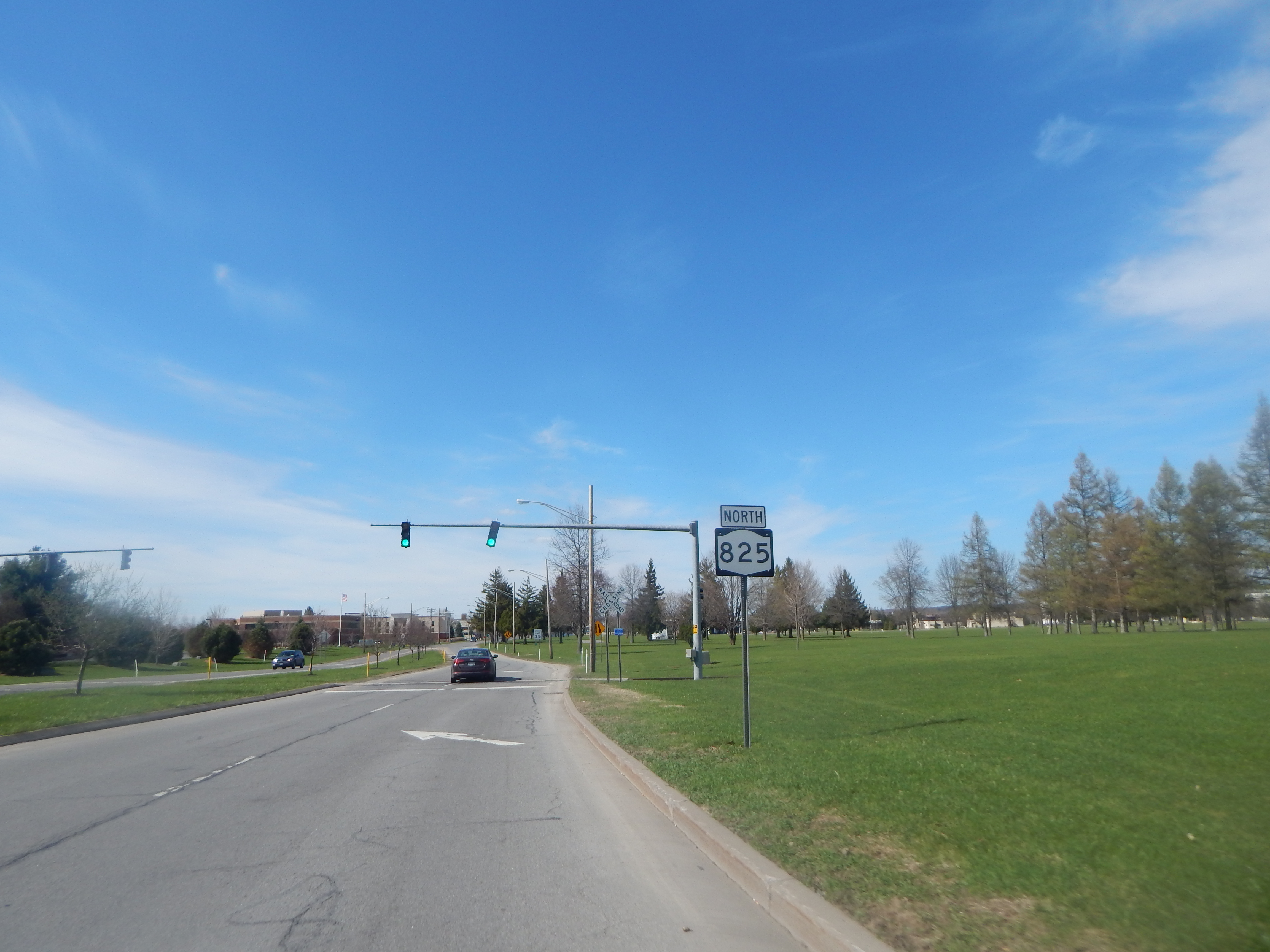 New York State Route 825 in the Griffiss Park section of Rome, New York.